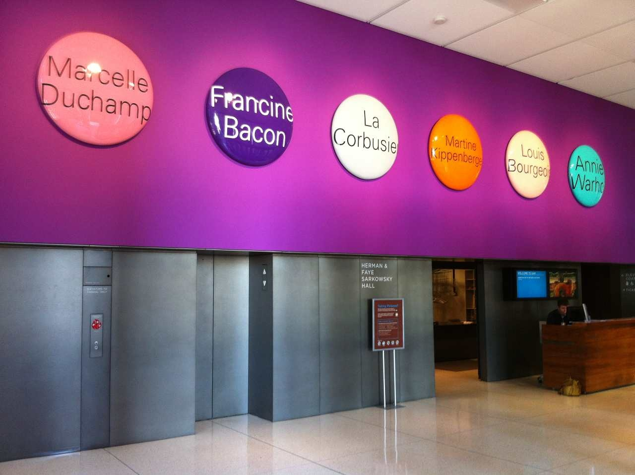 The work Portraits grandeur nature, exhibited in Seattle, 2012